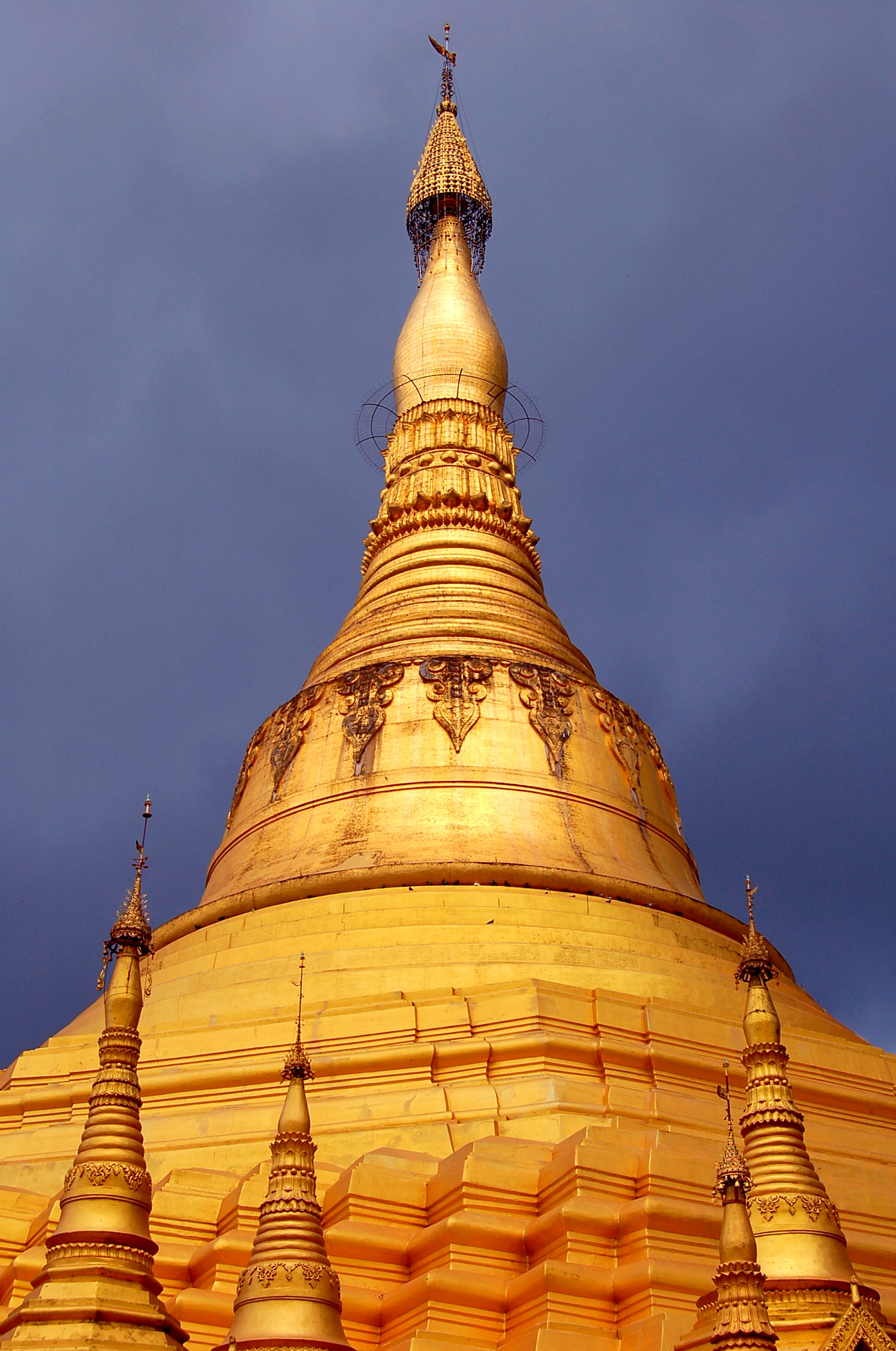 description:Shwedmagon. photographer: Worak photographer location:Belgium flickr_url: [1]